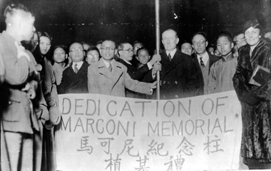 Guglielmo Marconi at the foundation laying ceremony of the Marconi Memorial in SJTU, Shanghai China 1933